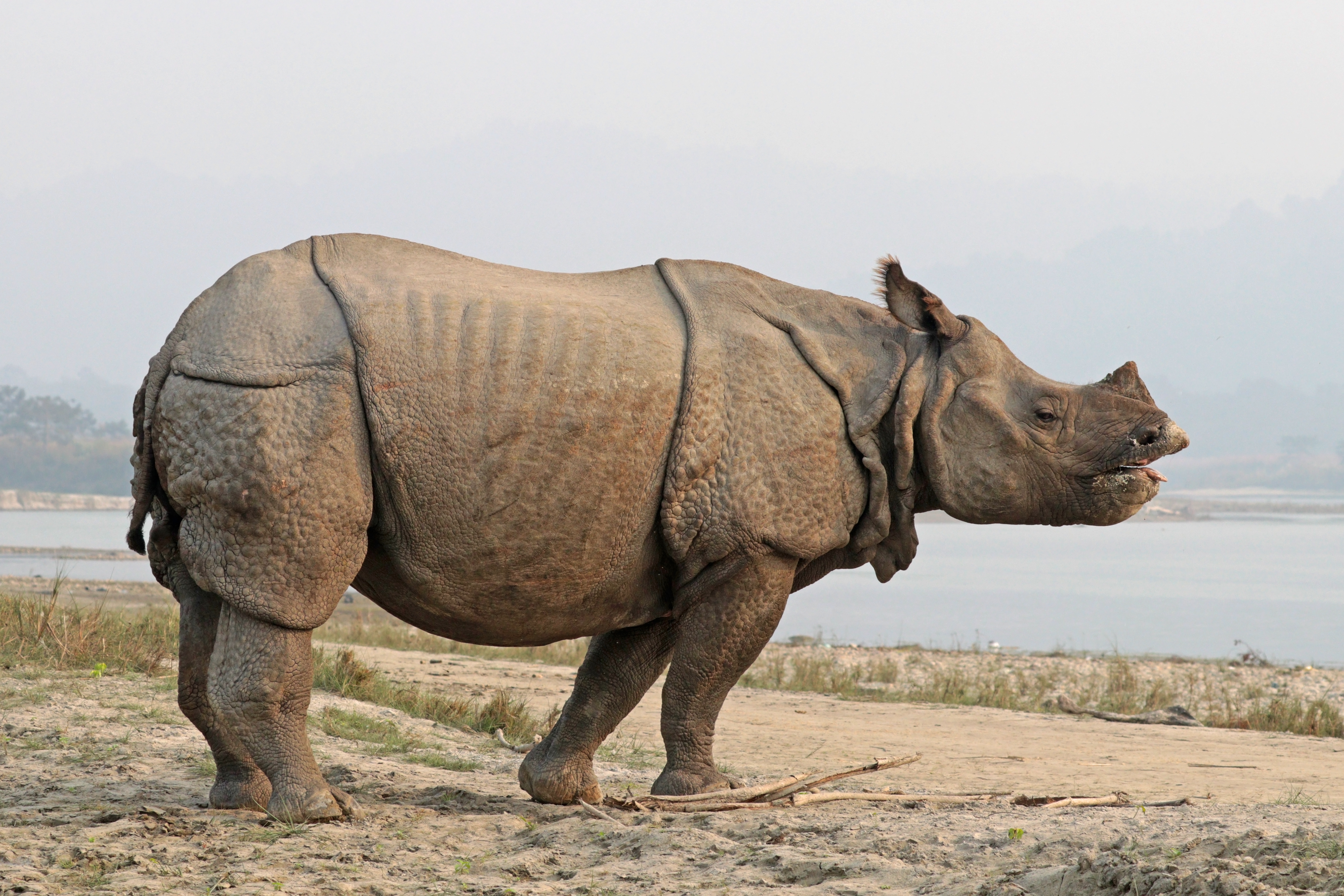 Indian rhinoceros (Rhinoceros unicornis), near Narayani River, Chitwan Community Forest buffer zone, Nepal